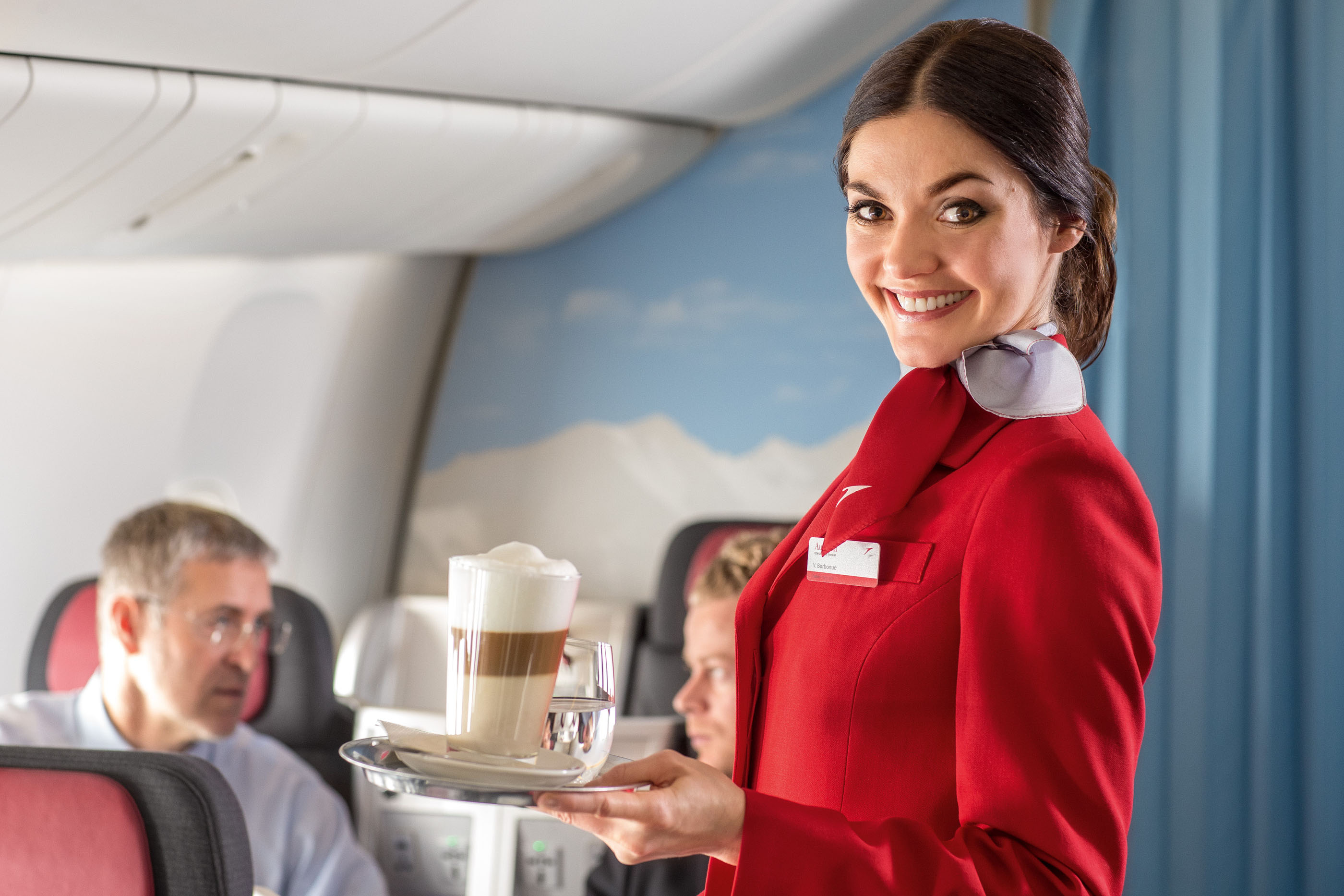 An Austrian Airlines flight attendant serving refreshments to passengers.